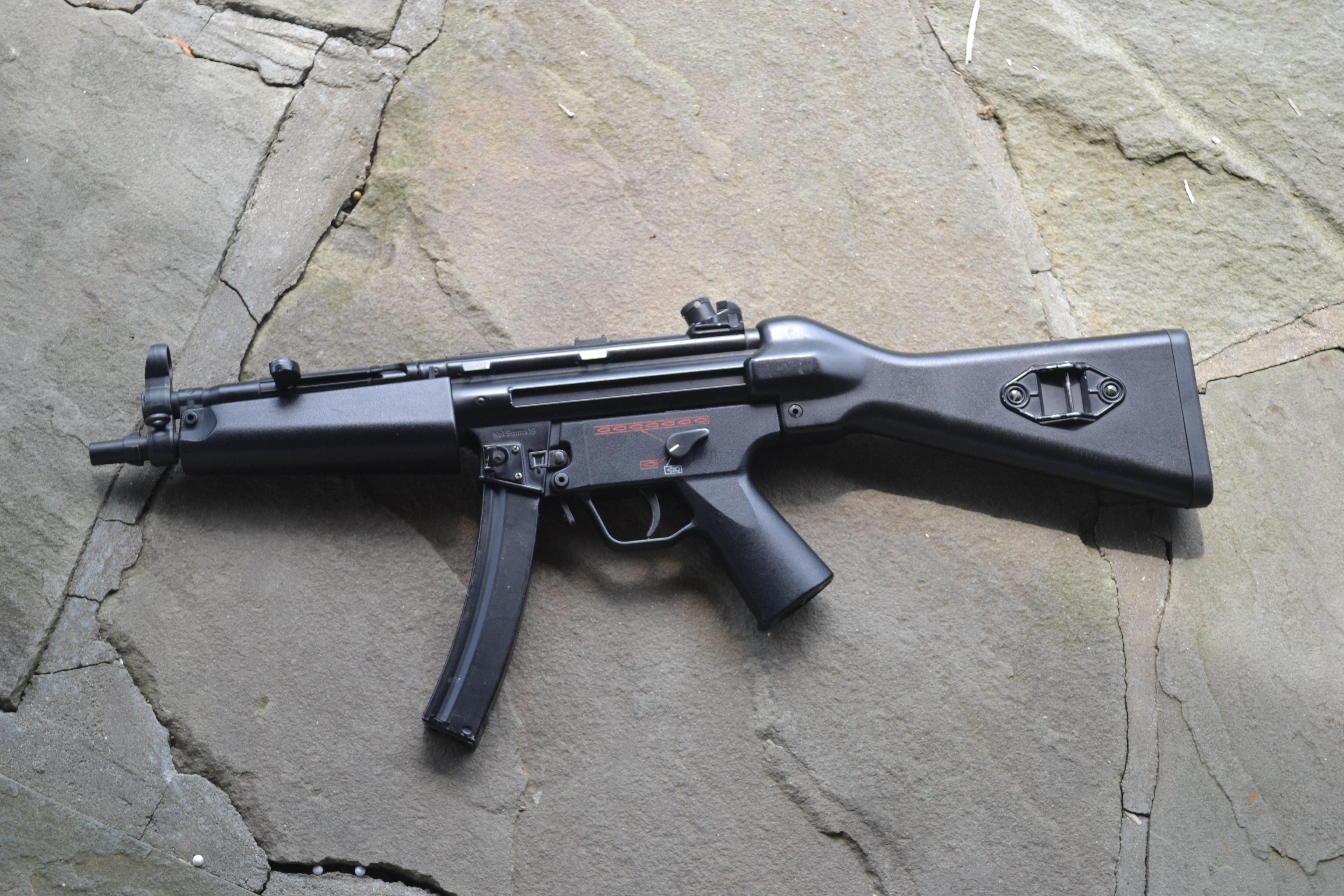 A Marui MP5a4 airsoft gun